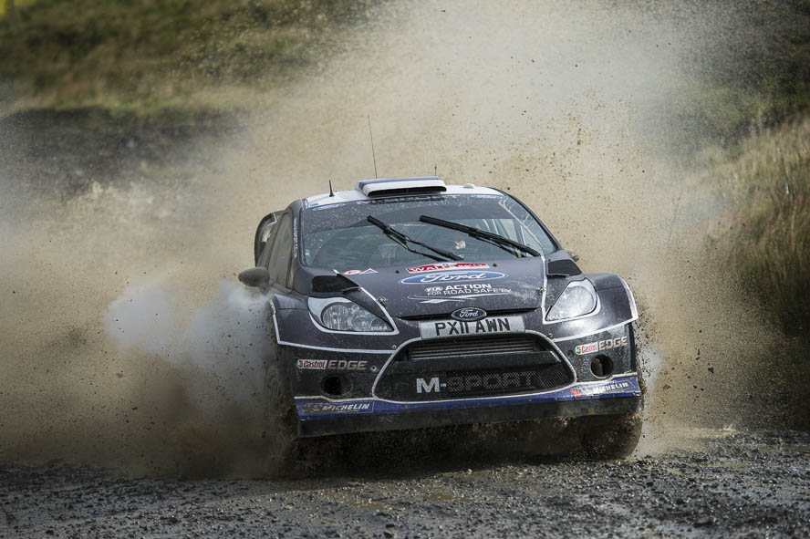 Wales Rally Great Britain 2012 Ford Fiesta RS WRC,Hafren Sweet Lamb 1,Kuldar Sikk,M-Sport Ford WRT,M-Sport Ford World Rally Team,Motorsport,Ott Tänak,Rally,Rallye,SS2,WP2,WRC,Wales Rally GB